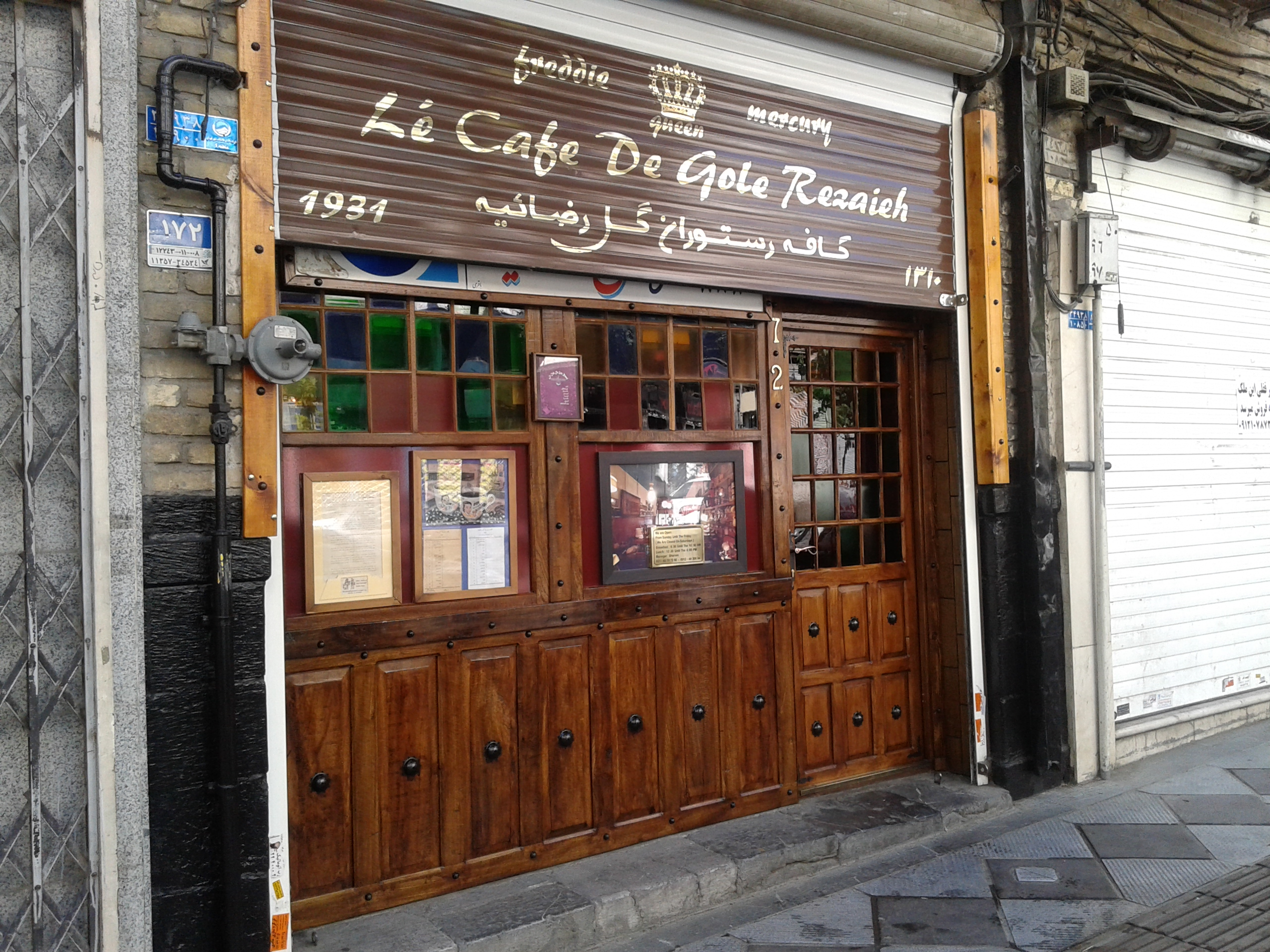 café & restaurant